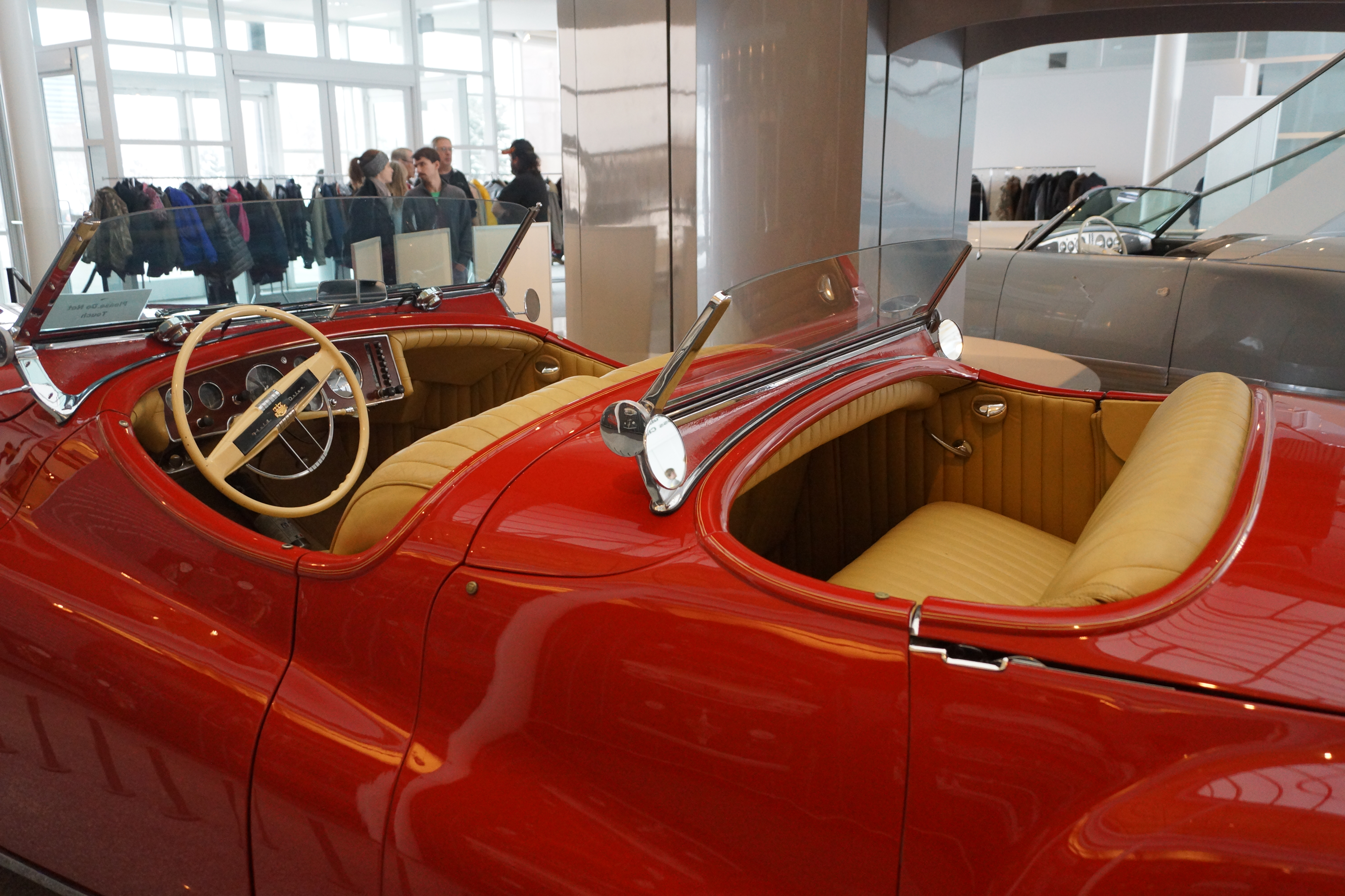 Click here for more car pictures at my Flickr site. Or here for my Car Crazy Tumblr site. Back on November 4th, Hemming's Blog posted an article about the closing of the Walter P. Chrysler Museum . I had missed a couple other opportunities with the WPC Club and others to get into the museum, after it had closed to the public. I did not want to regret missing this last chance to see all of the vehicles before being spread out to other facilities. I trekked from Western Minnesota to Eastern Michigan during Winter Storm Decima. I missed the worst parts of the storm, but still had to endure the aftermath winds, sub zero temperatures and a lake effect snow storm. The trip was difficult, but well worth it. I got to see several Chrysler Corporation concept and show cars that I had only seen pictures of before. There were several clever interactive displays demonstrating various innovations over the years. Since it was the last chance, I duplicated several shots using different camera settings to see what produced better results. I wish I had invested in a strobe light diffuser for all of those indoor pictures. I have not had much experience or success in the past with indoor car images.